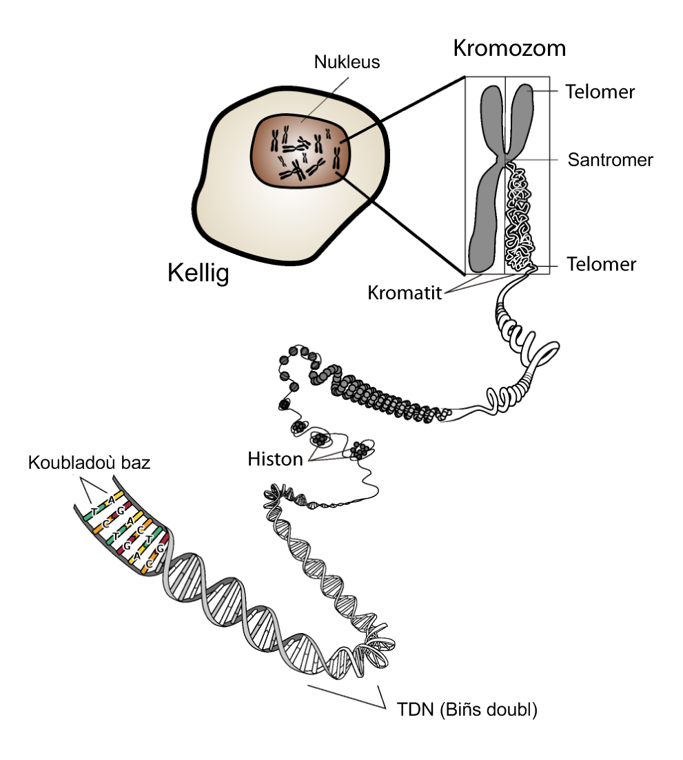 Image:Chromosom.svg from commons now with Dutch text Modell der Feinstruktur eines Chromosoms. Quelle: The source image "may be used without special permission". I, User:Phrood~commonswiki, changed the text and added some colors. This file contains vectorized glyphs from the Computer Modern fonts by the American Mathematical Society. These fonts are copyrighted, however they may be used freely, provided that any changes from the original files are published under a different name (